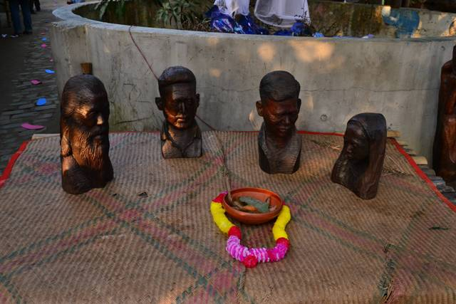 Annual Crack International Art Camp in Rahimpur, Kushtia, Bangladesh, 2013.